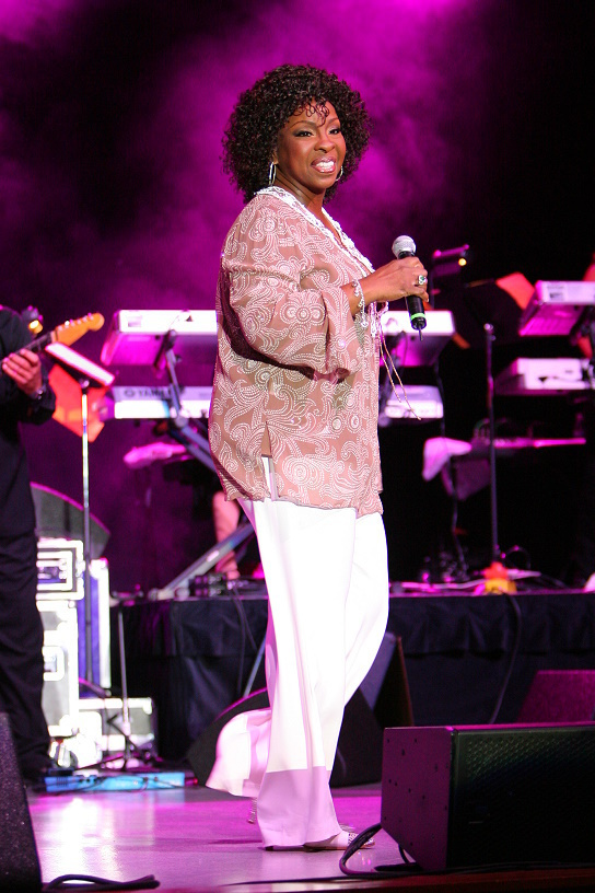 Gladys Knight in concert at the Chumash Casino Resort in Santa Ynez, California, on October 12, 2006.